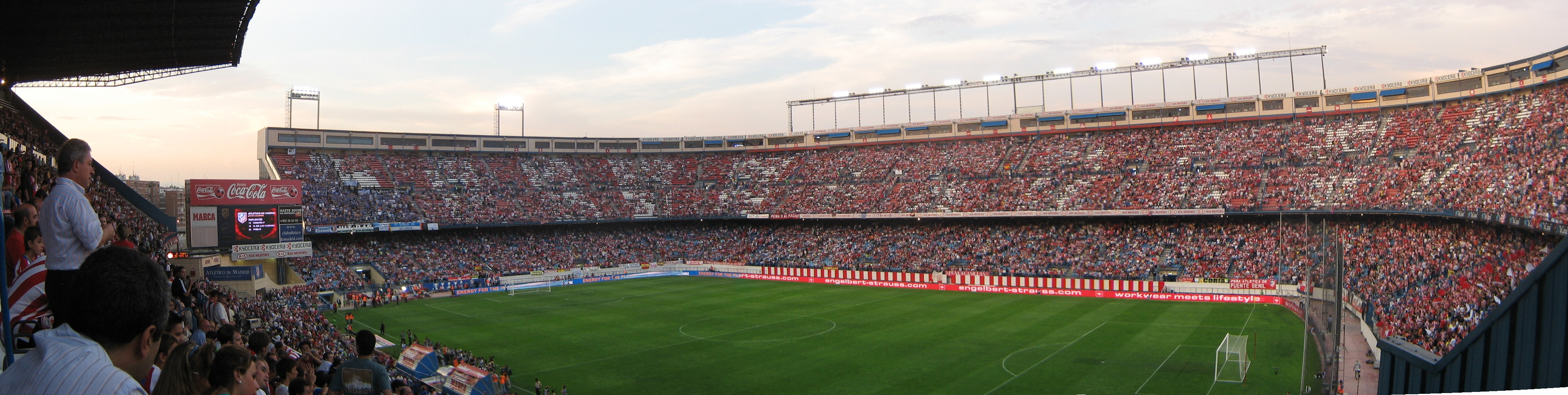 View of Vicente Calderón Stadium before the Atlético Madrid-Schalke 04 match